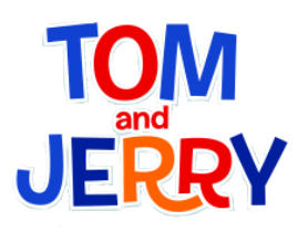 Logo for the Tom and Jerry franchise in 2014